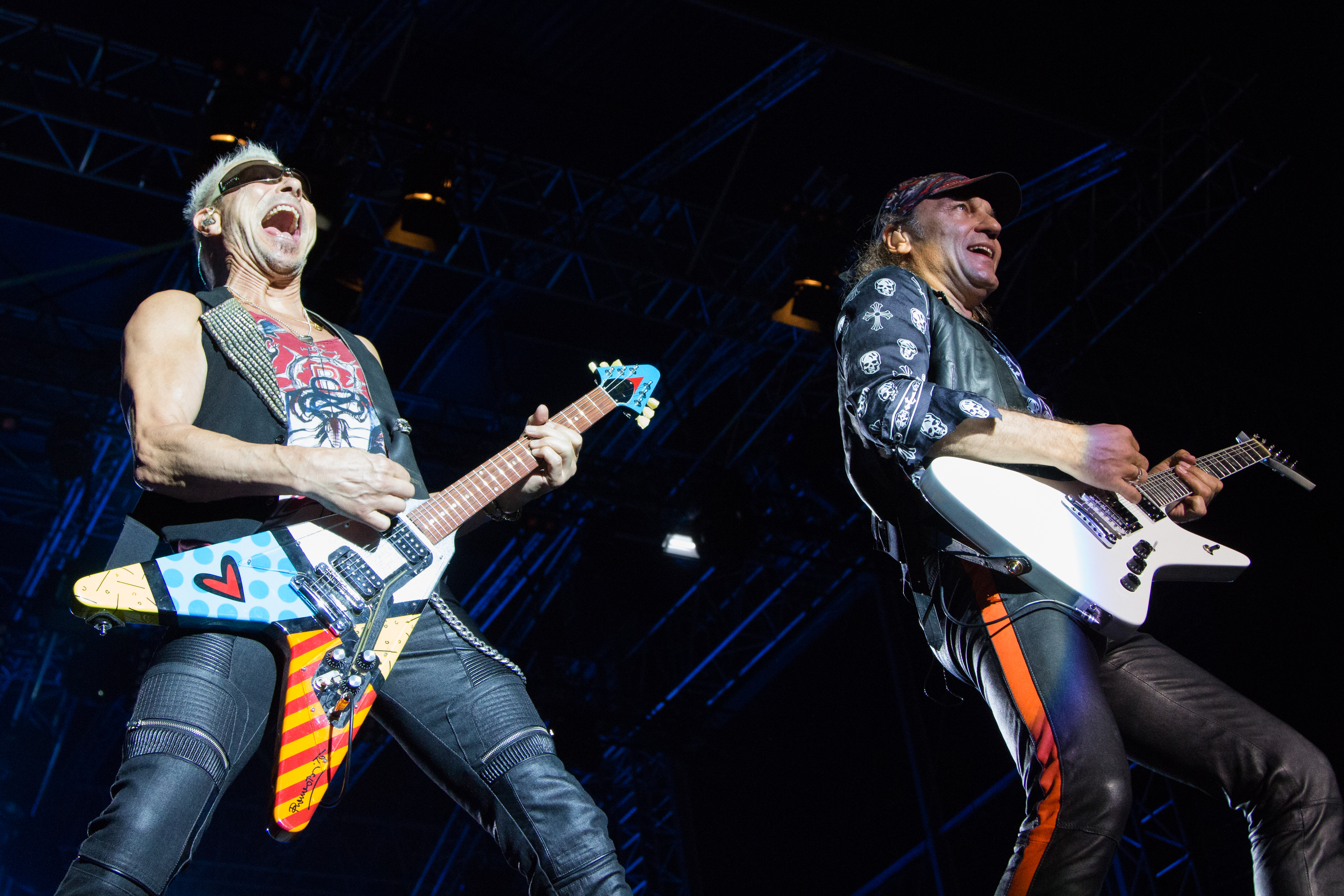 Matthias Jabs and Rudolf Schenker from the Scorpions at the See-Rock Festival 2014